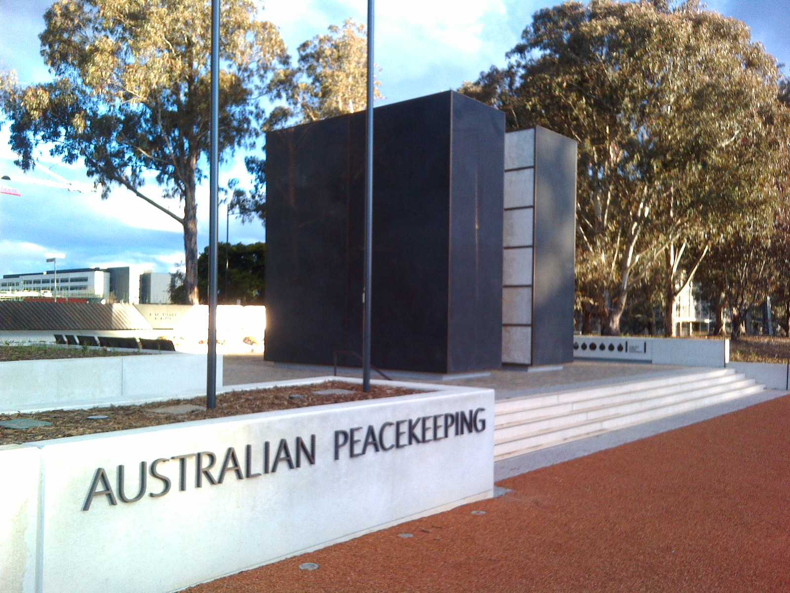 A view of the Peacekeepers Memorial, Canberra